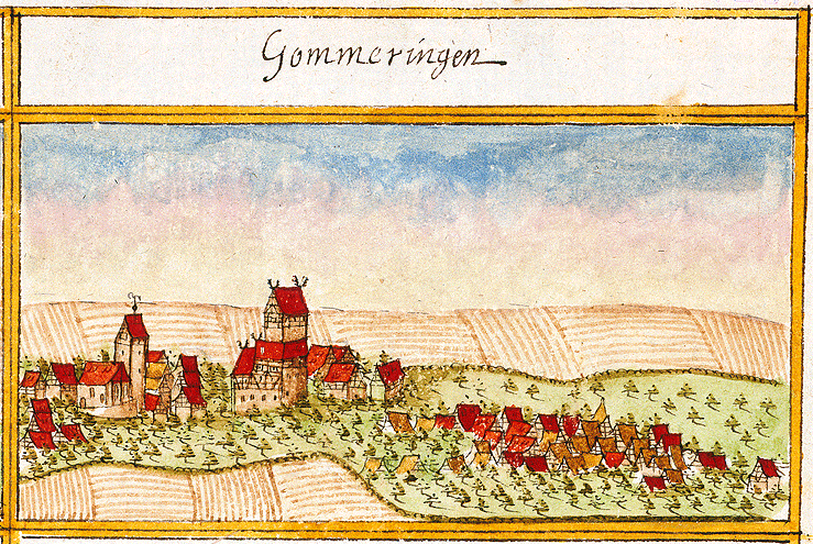 View of Gomaringen from the forest register books created by Andreas Kieser